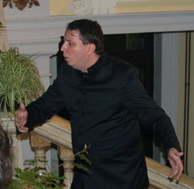 Aleksandar Spasić